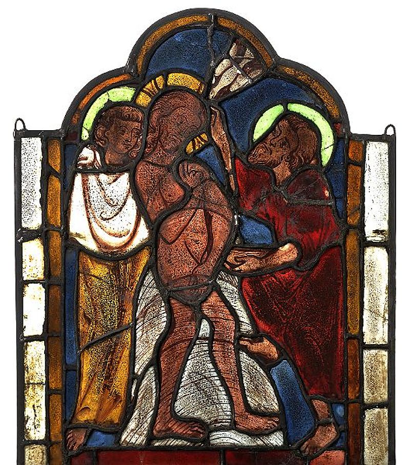 A medieval stained glass window pane depicting the baptism of Christ. Formerly in Etelhem Church on Gotland, today in the Swedish History Museum.